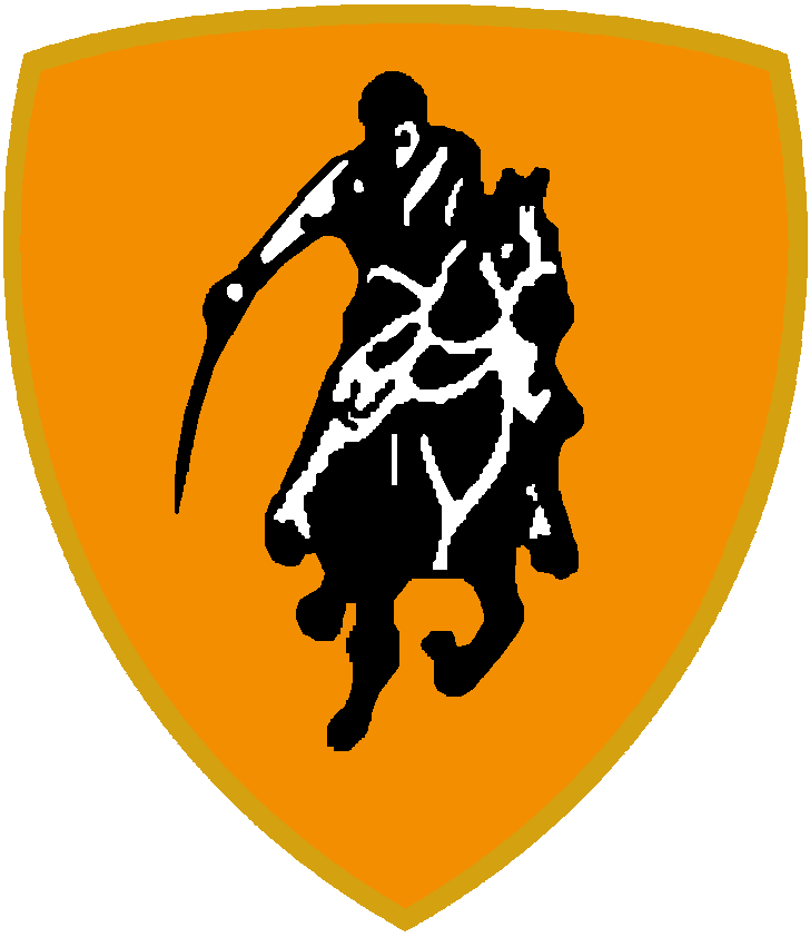 Coat of Arms of the Italian Cavalry Brigade Vittorio Veneto after 1986